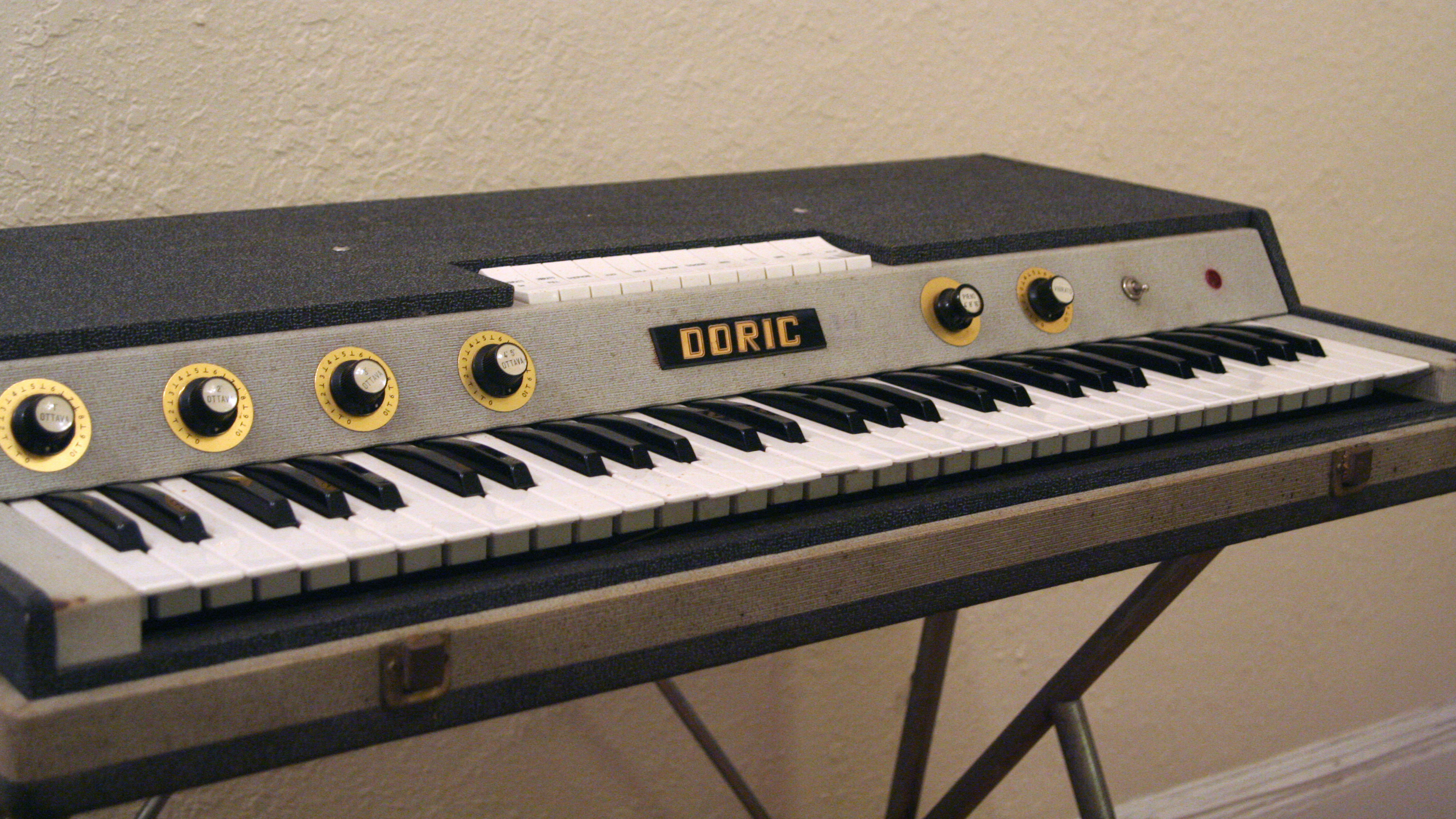 This photo is my own work.